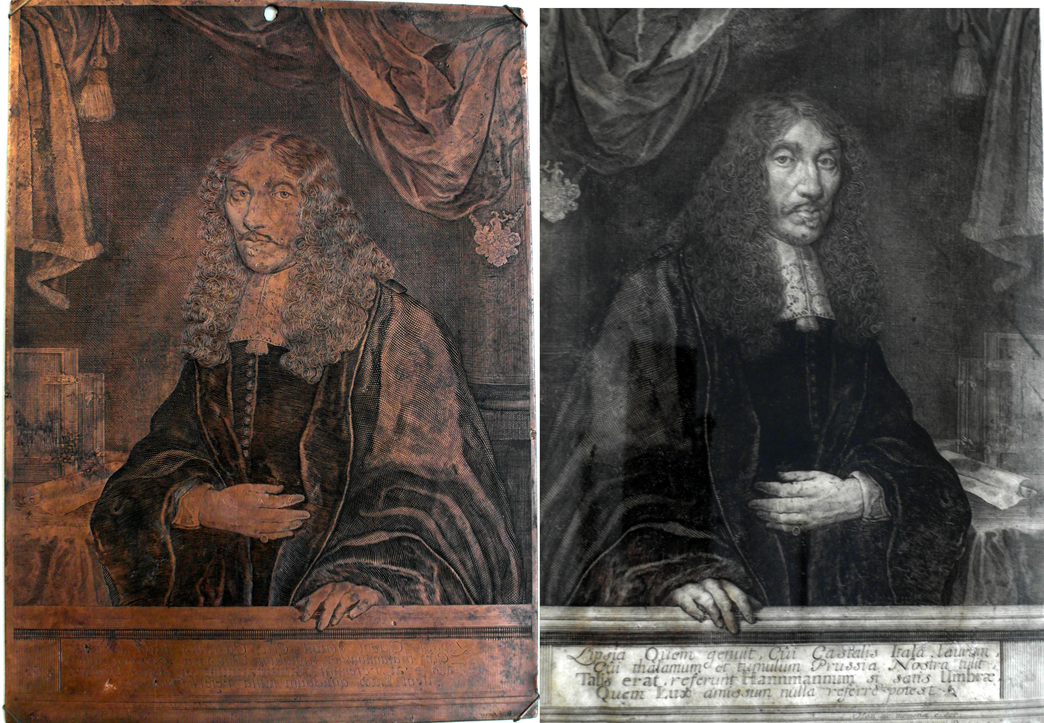 Chalcography